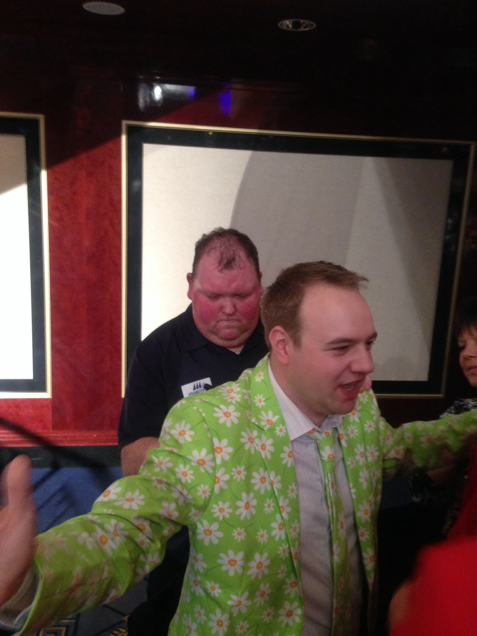 John Henderson signing a fan's Opposuit following his win over Peter Wright